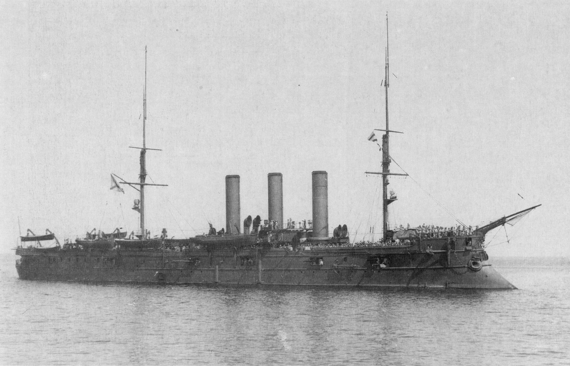 The Imperial Russian armoured cruiser Pamiat’ Azova.